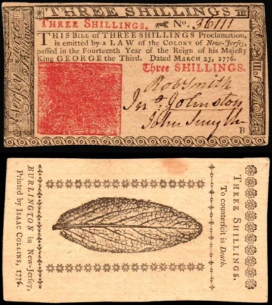 English notes of Three Shillings printed by Isaac Collins 1776